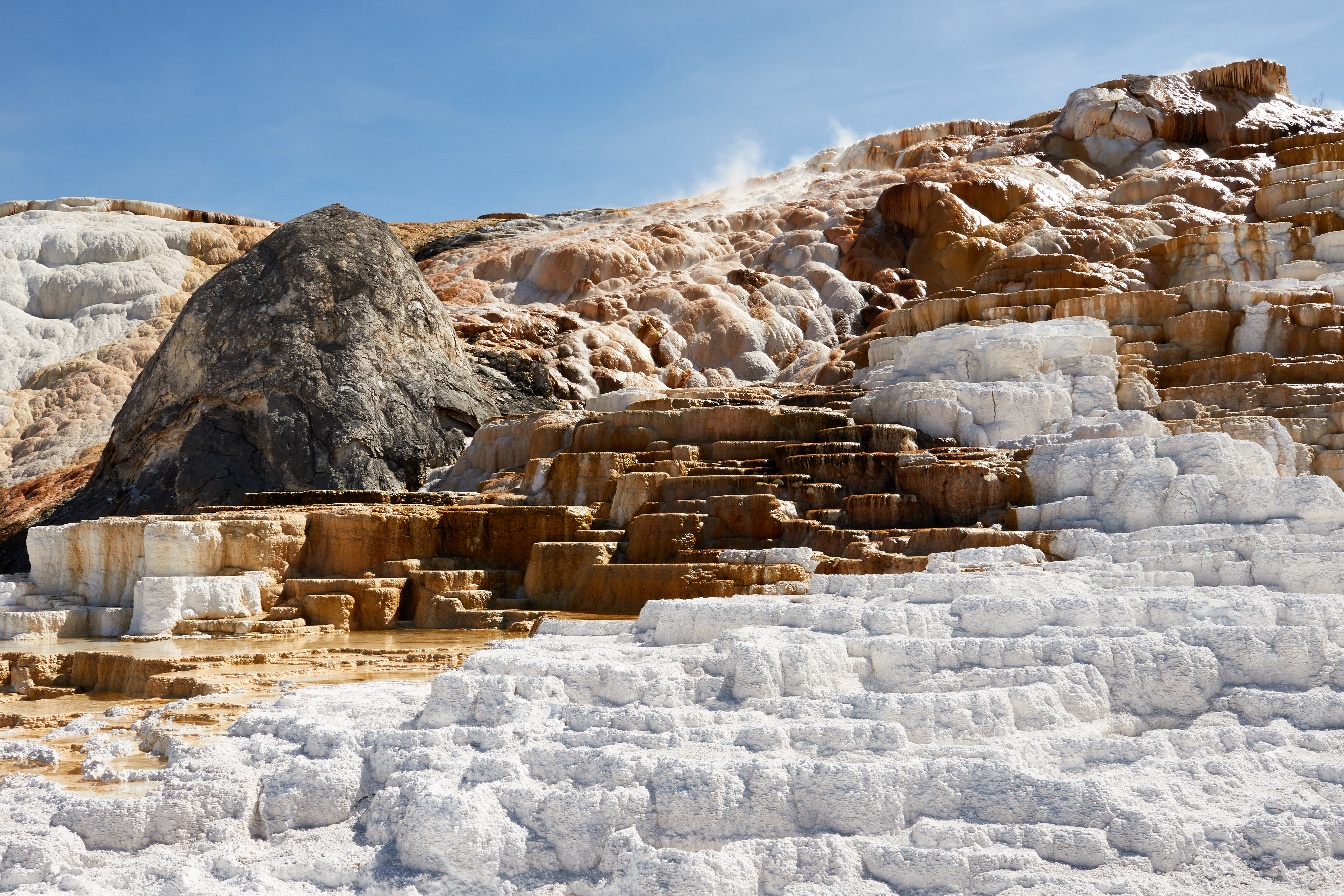 Travertine terraces in Mammoth Hot Springs, Yellowstone National Park, Wyoming, United States